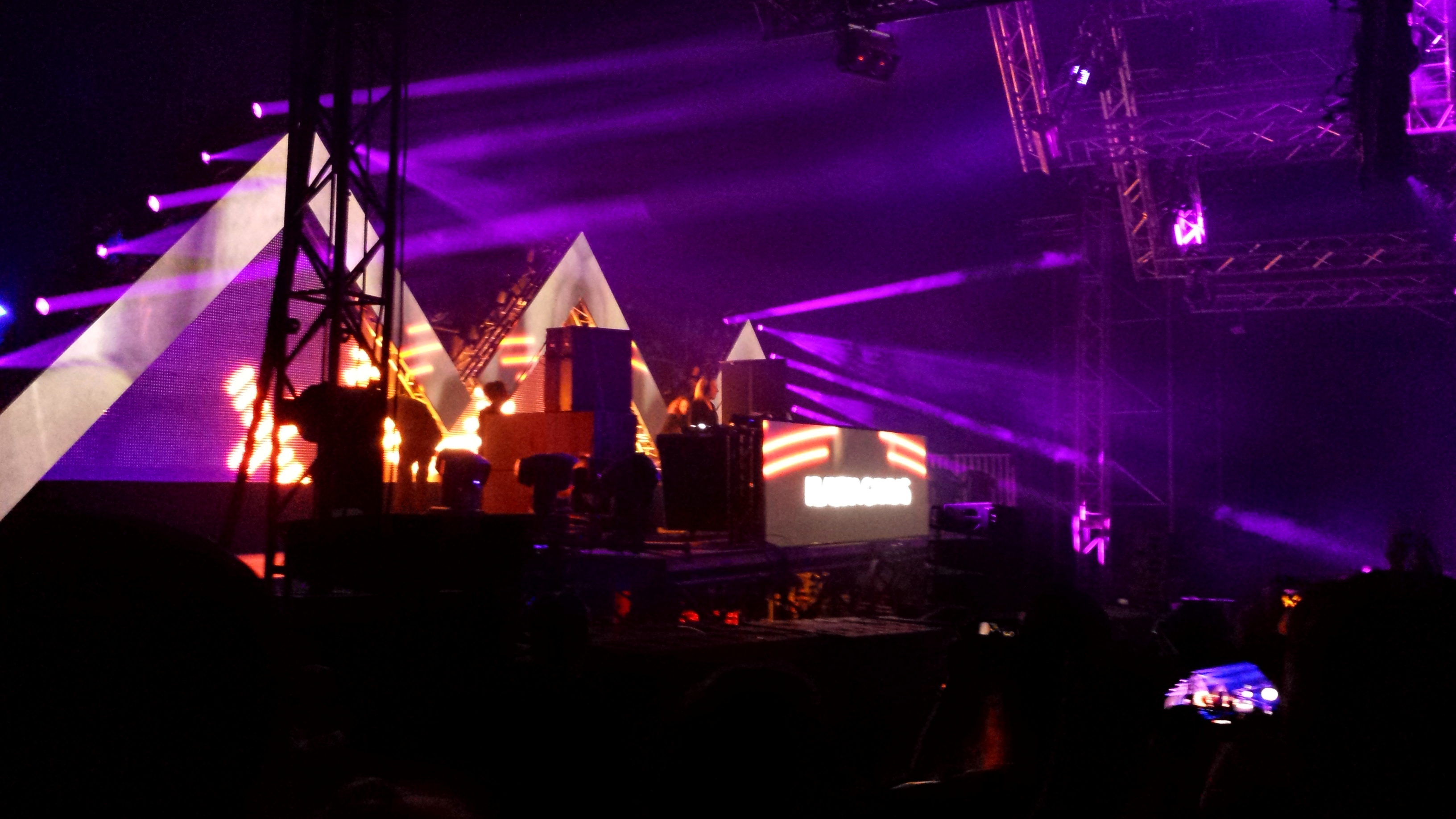 Klaudia Gawlas Nature One 2019 Century Circus